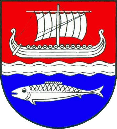 Coat of arms of the municipality Schaalby in Schleswig-Holstein, Germany.